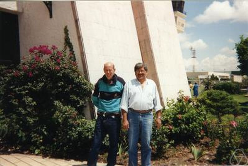 George Kempf (left), Sevin Recillas (right), Mexico City, 1990s